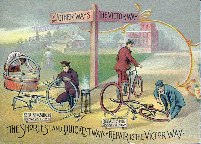 1894 advertisement for the Victor Bicycle, made by the Overton Wheel Company.